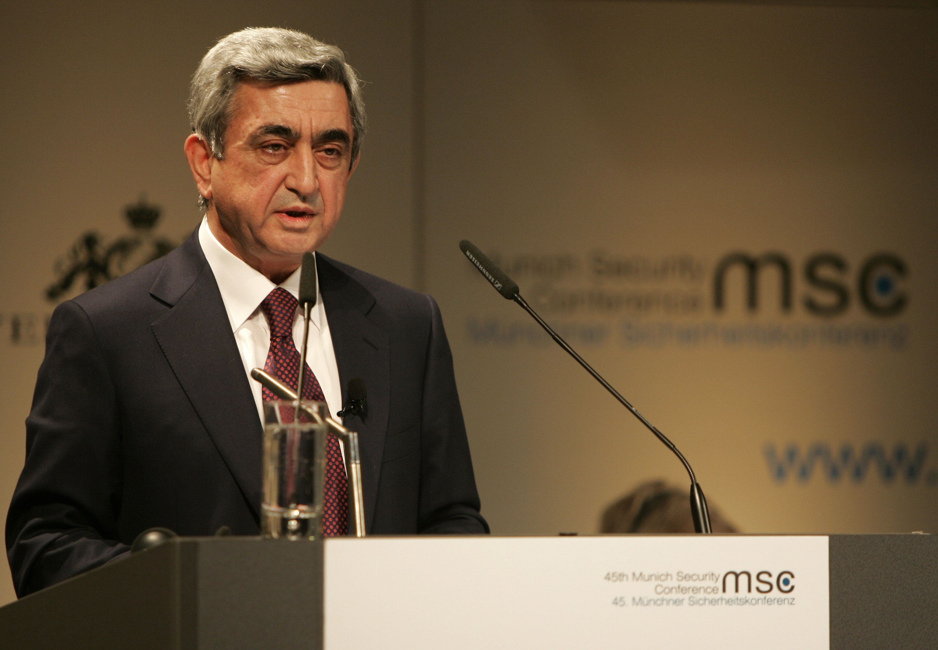 45th Munich Security Conference 2009: Serzh Sargsyan, President of the Republic of Armenia, during his speech on Saturday afternoon.